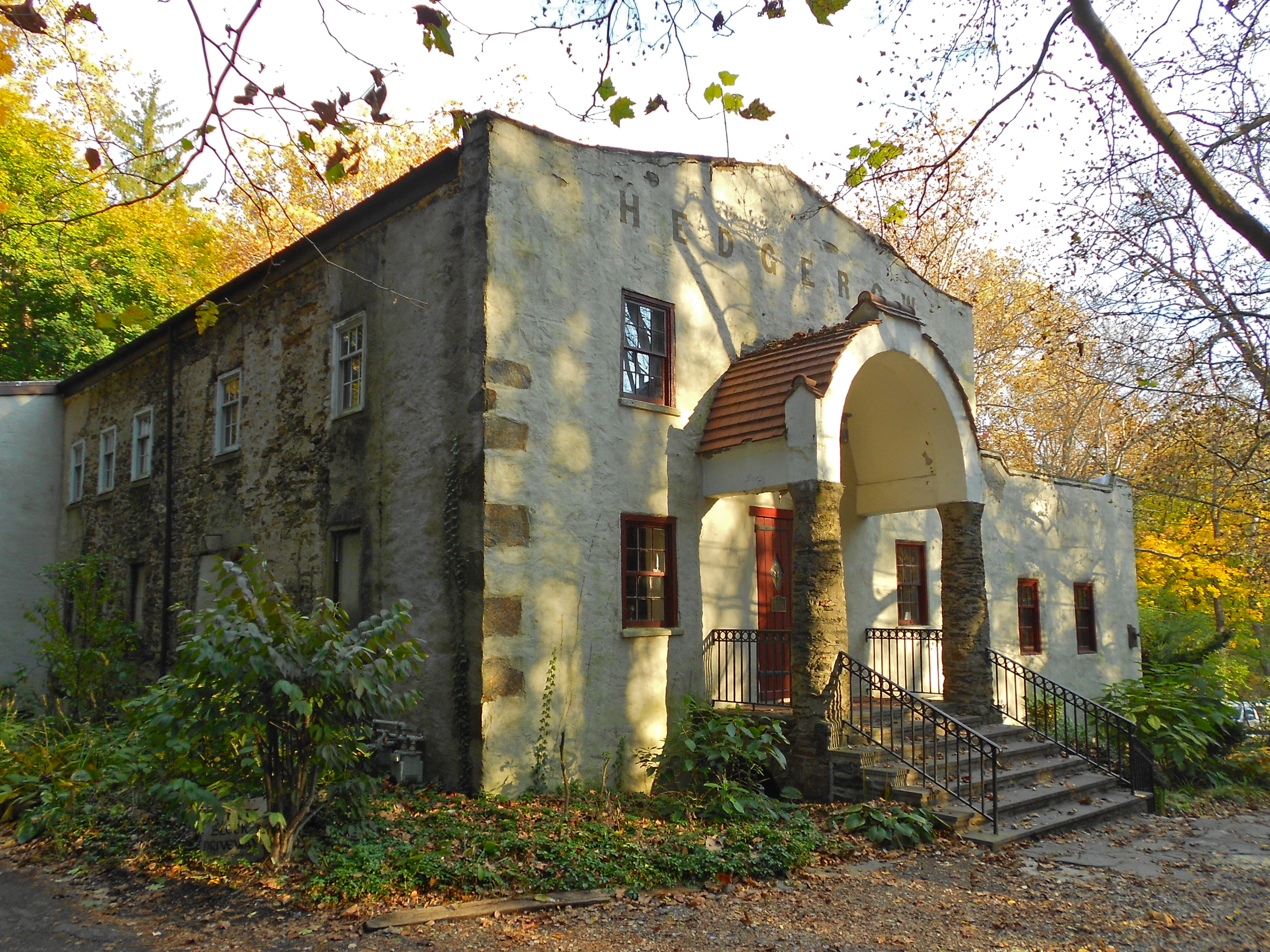 Building in Rose Valley, Pennsylvania a historic district listed on the NRHP in 2010 This is the Hedgerow Theatre